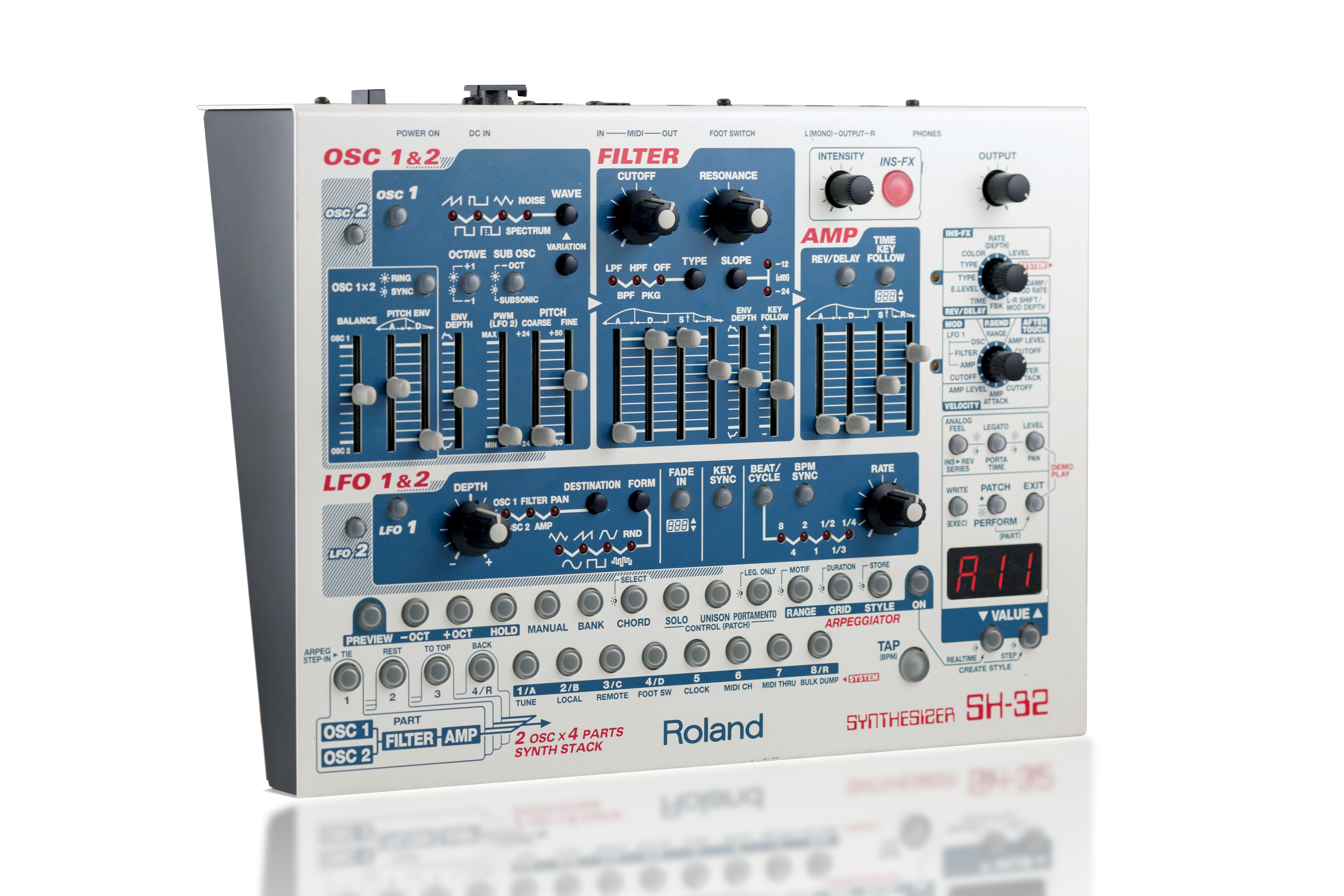 The SH-32 is a 4-part multitimbral desktop synth module using new Wave Acceleration Synthesis.